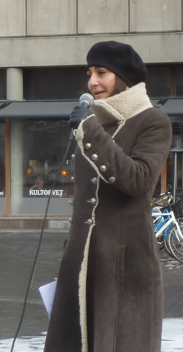 Ayfer Baykal, Mayor of Technics and Environment, speaking on the square Kultorvet in Copenhagen.